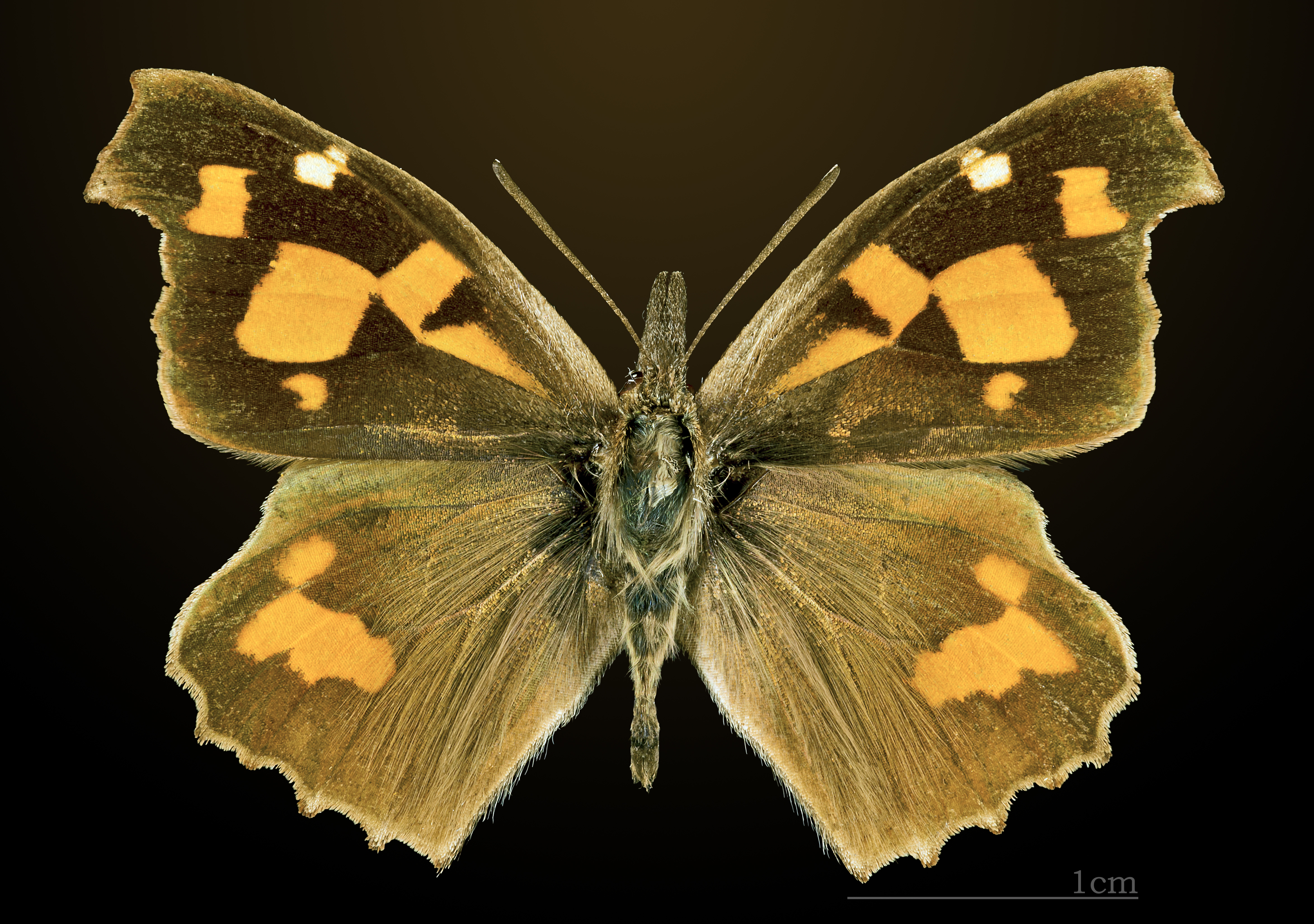 European Beak - Dorsal side Locality: Châteauvert, Var, France